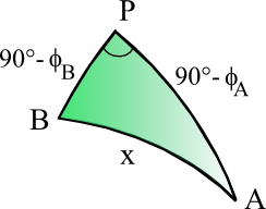 Geometrical triangle